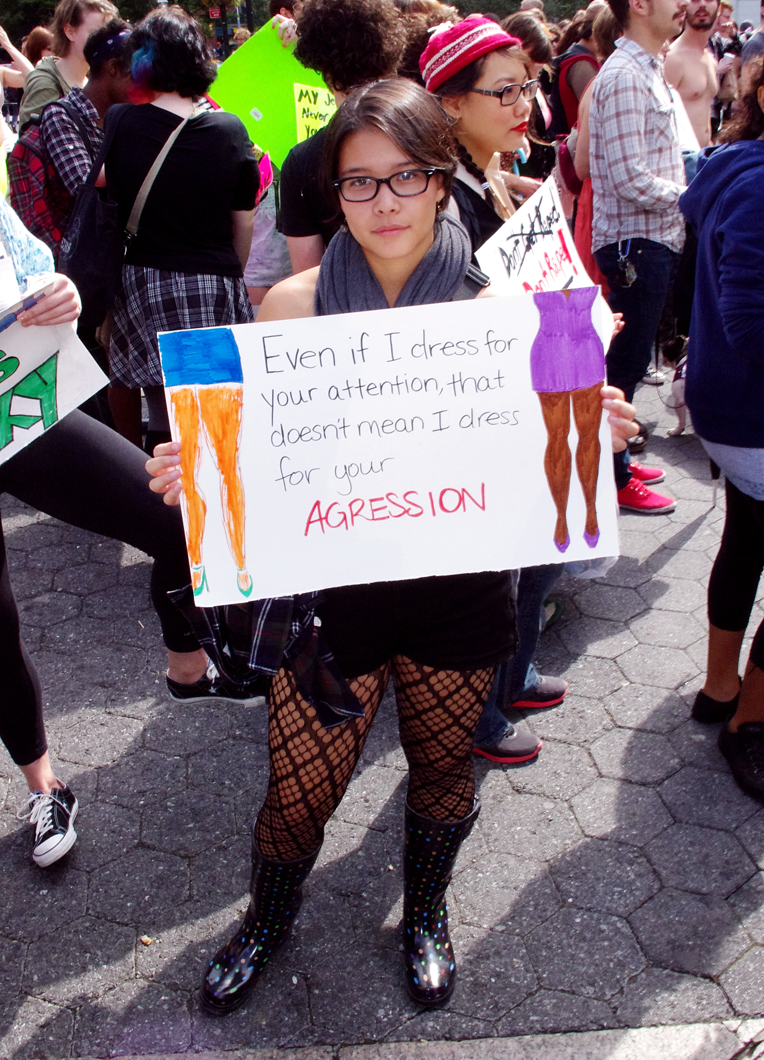 Photos from SlutWalk NYC on Saturday in Union Square.